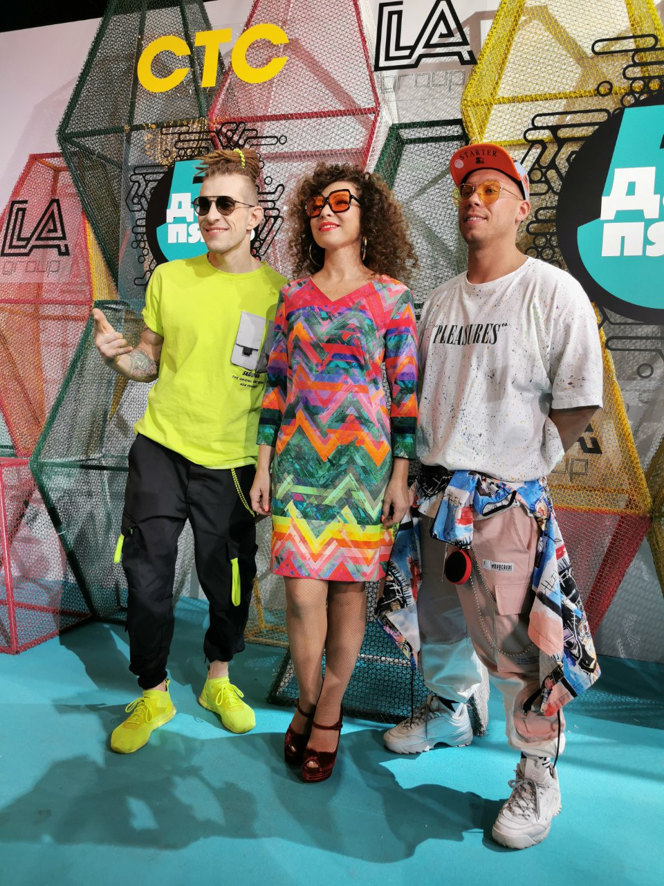 Banderos music